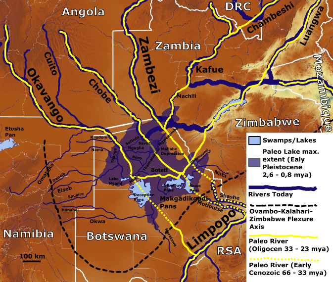 The presumed maximum extent of the Paleo Makgadikgadi Lake in early Pleistocene and the course of the rivers in the early to middle Cenozoic. Sources: The evolution and ages of Makgadikgadi palaeo-lakes: Consilient evidence from Kalahari drainage Evolution South-Central Africa; Article in South African Journal of Geology; September 2012 Geological Society of Zimbabwe - Newsletter June 2016 No. 2 of 3 of 2016 The Zambezi River; Andy E. Moore, Fenton P.D. (Woody) Cotterill, Mike P. L. Main and Hugh B. Williams